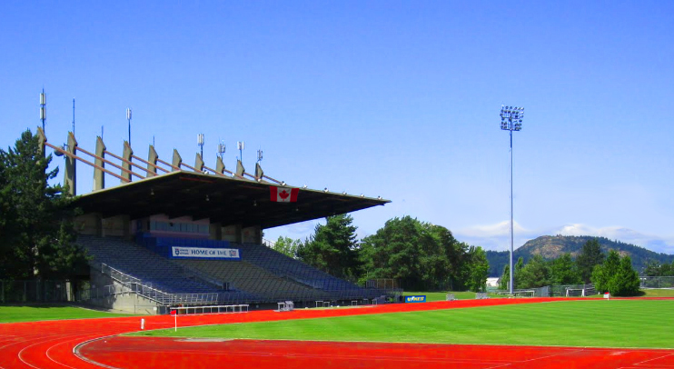 Centennial Stadium. Victoria, British Columbia, Canadá